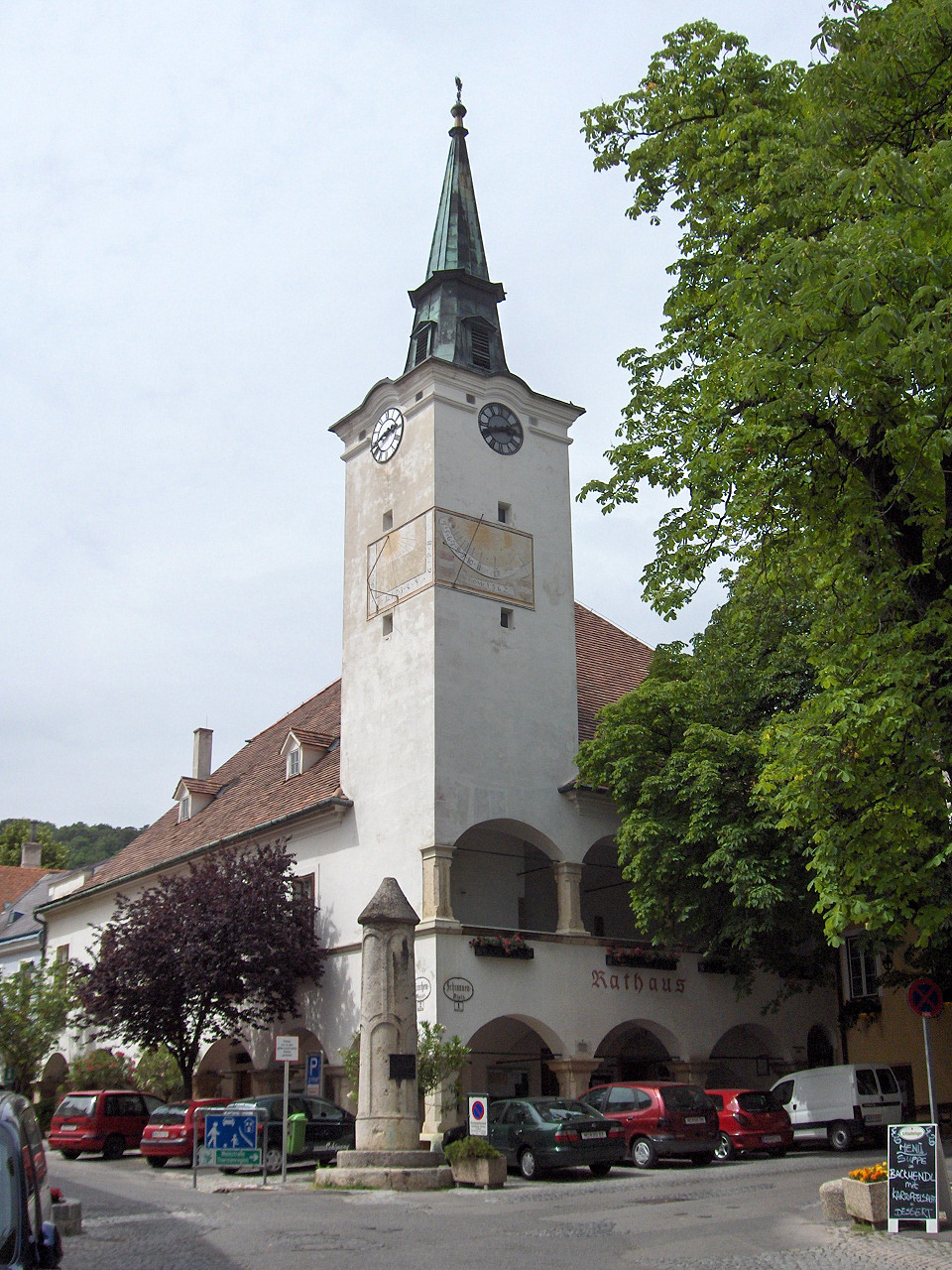 Rathaus (city hall) with pillory of Gumpoldskirchen, Austria